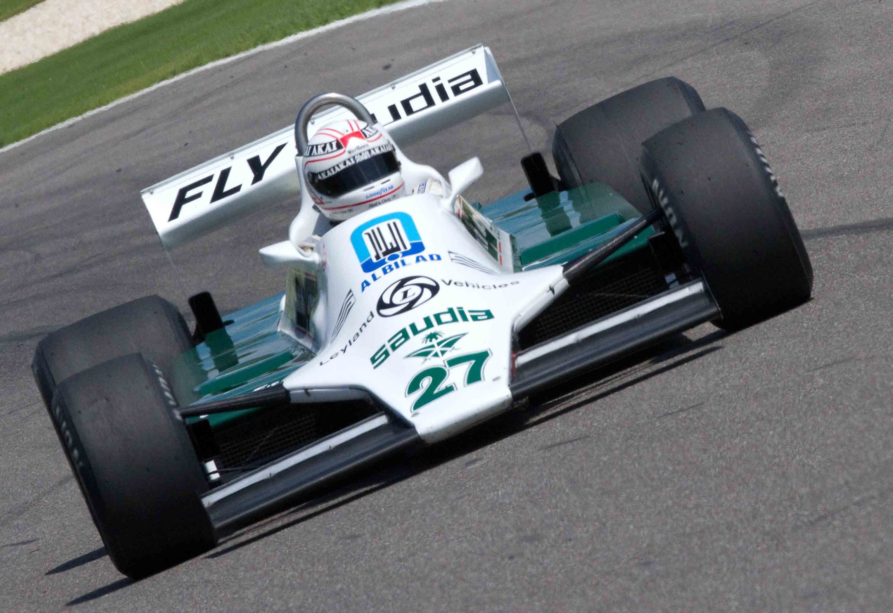 Williams FW07 at Barber Motorsports Park, 2010